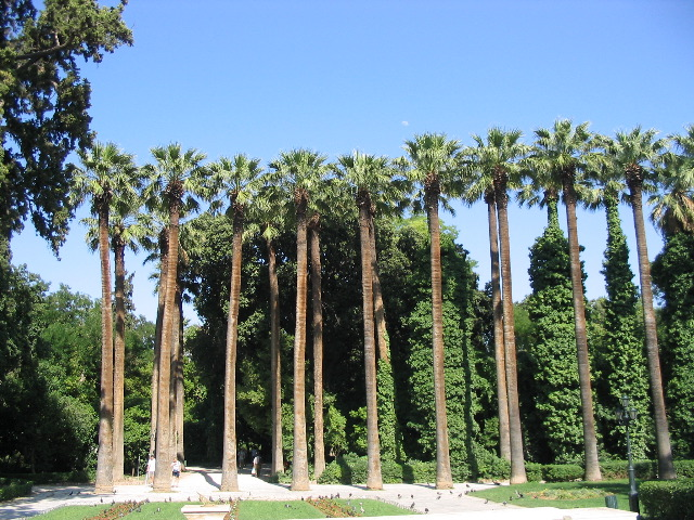 Picture of the National Garden in Athens, Greece.